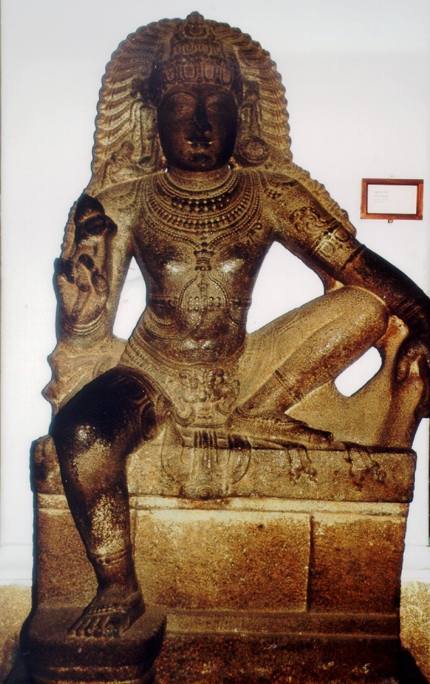 Shasta, Chola Dynasty, Government Museum Madras, India